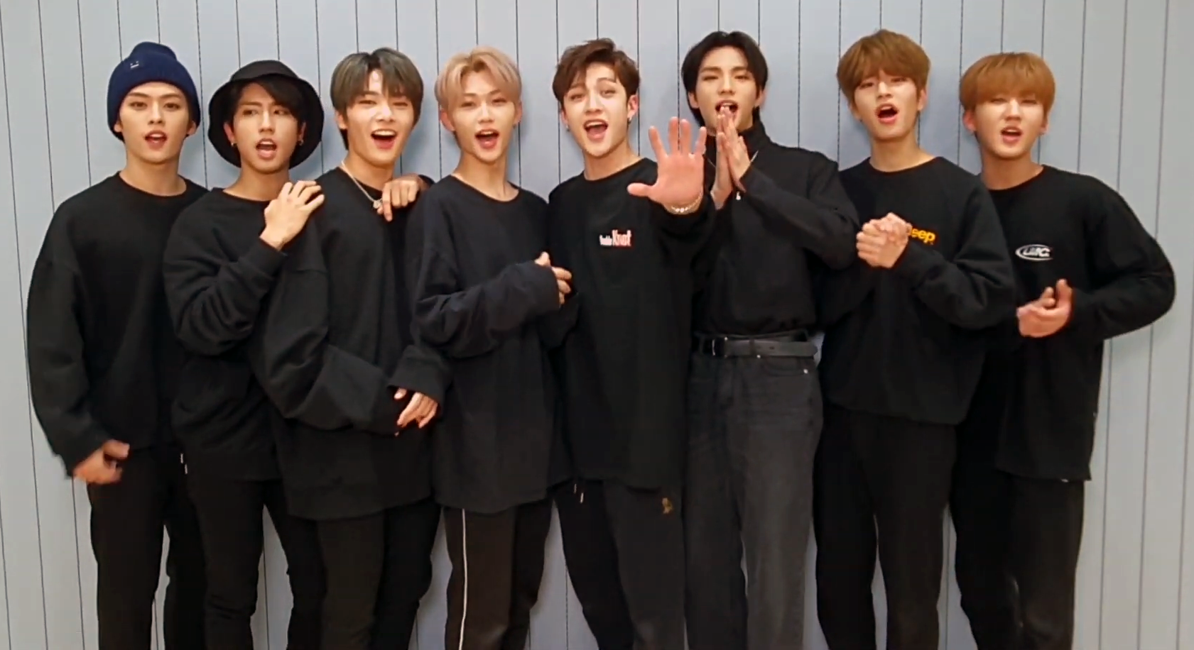 Stray Kids in a promotion for JYP Entertainment's JYP Audition, December 2019